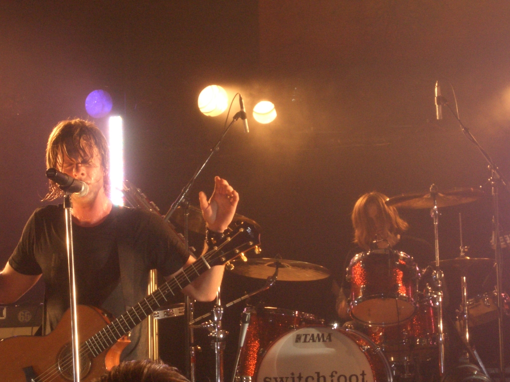 Image (Source) found at this website, licensed under a creative commons attribution 2.5 license